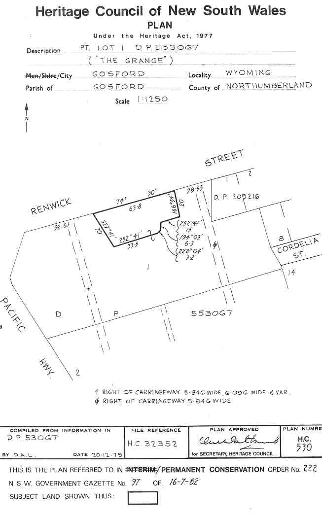 The Grange, Wyoming: PCO Plan Number 222